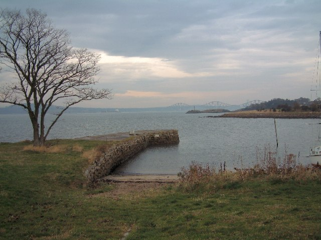 Dalgety Bay Harbour. This tiny harbour, built in the 1800s to house the Earl of Moray's yacht is located within the grounds of the Dalgety Bay Sailing Club.